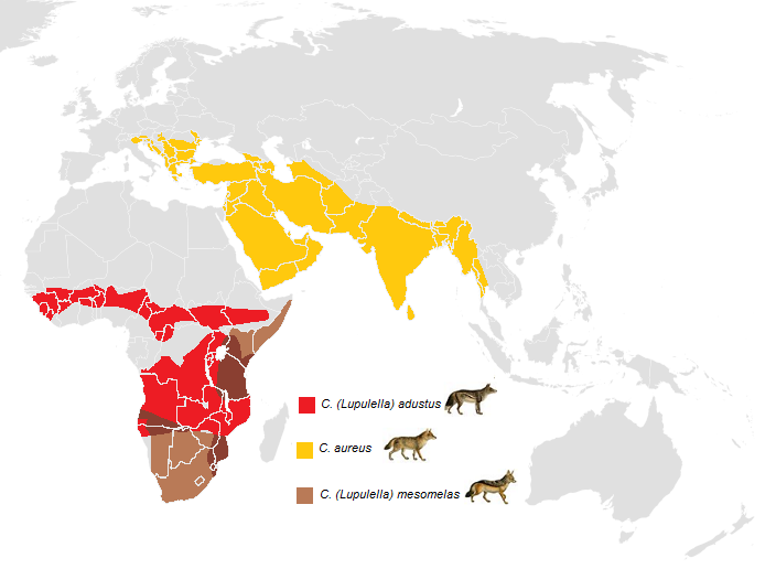 Distribution of Jackals